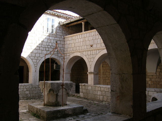 S. Eufemia monastry (Kampor, island of Rab).